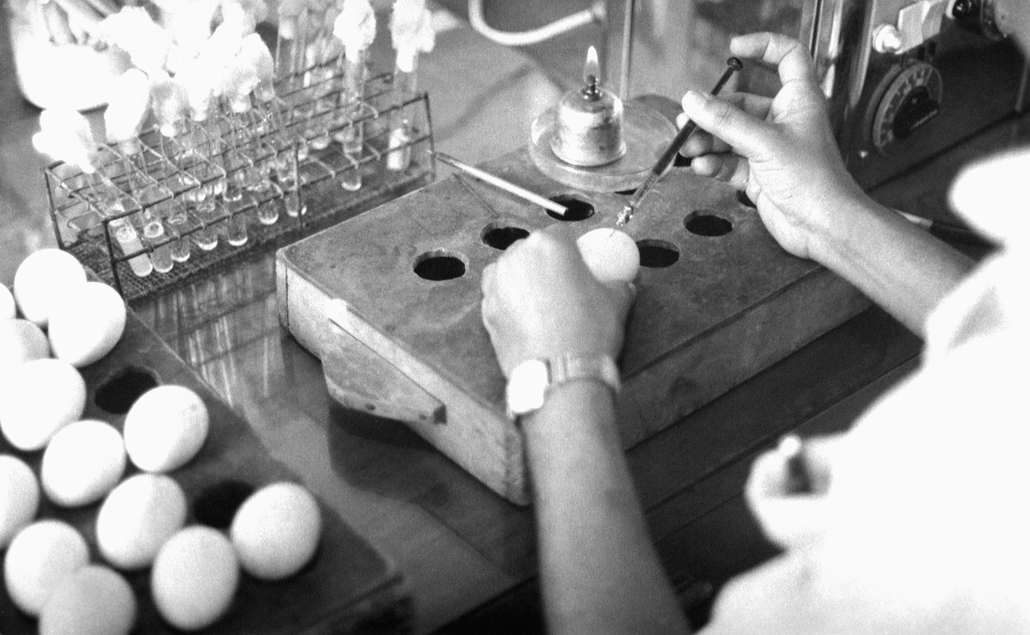 "This image depicted a technician in a Bangladesh laboratory who was in the process of creating smallpox vaccine, and was in the process of injecting embryonated chicken eggs with viral particles. It was taken by Dr. Stan Foster, EIS, Officer, Class of 1962, while he was part of the worldwide Global Smallpox Eradication Campaign of the late 1960s, early 1970s."